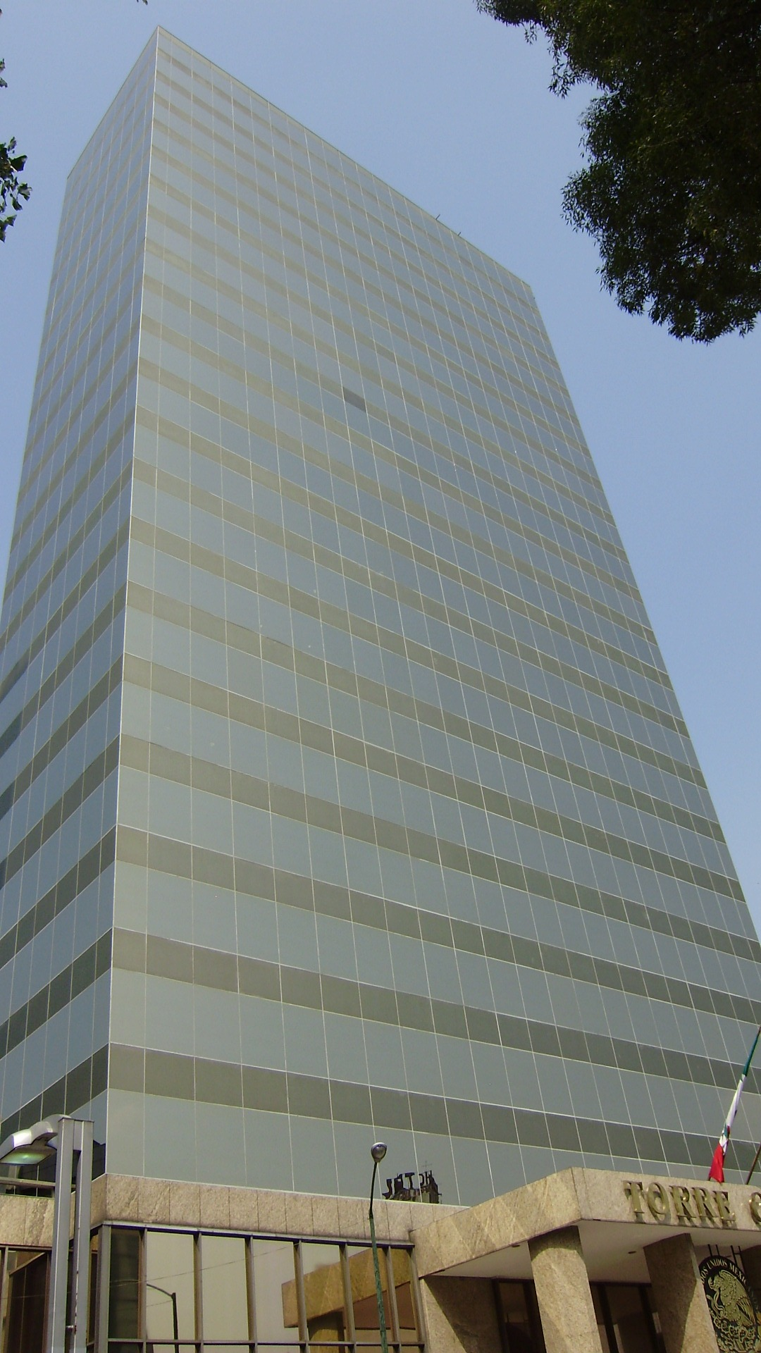 Torre Contigo in Mexico City